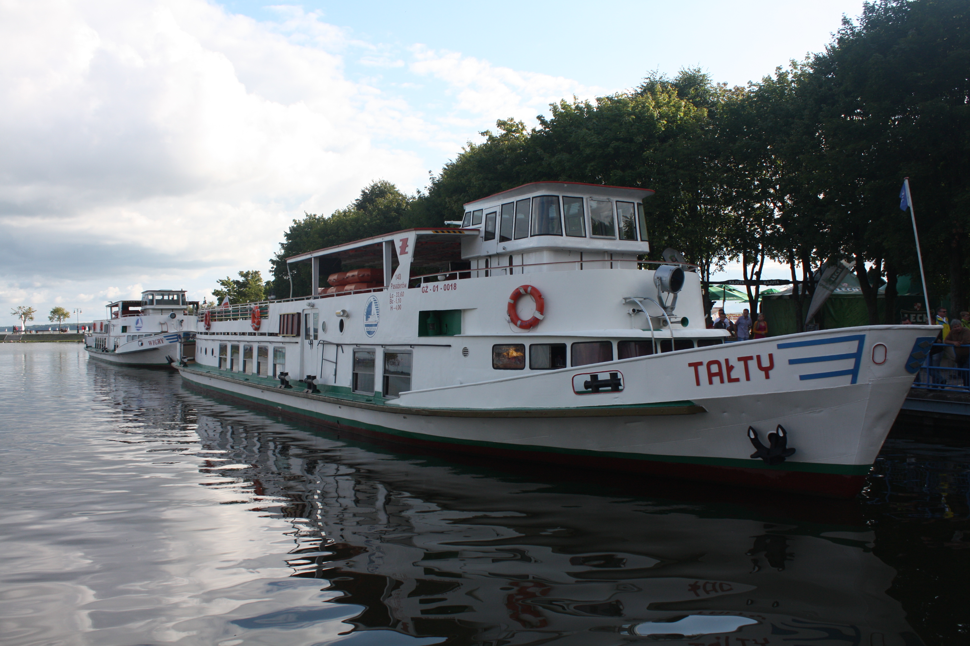 This photo of Warmian-Masurian Voivodeship was taken during Wikiexpedition 2012 set up by Wikimedia Polska Association.You can see all photographs in category Wikiekspedycja 2012. The making of this document was supported by Wikimedia Polska.